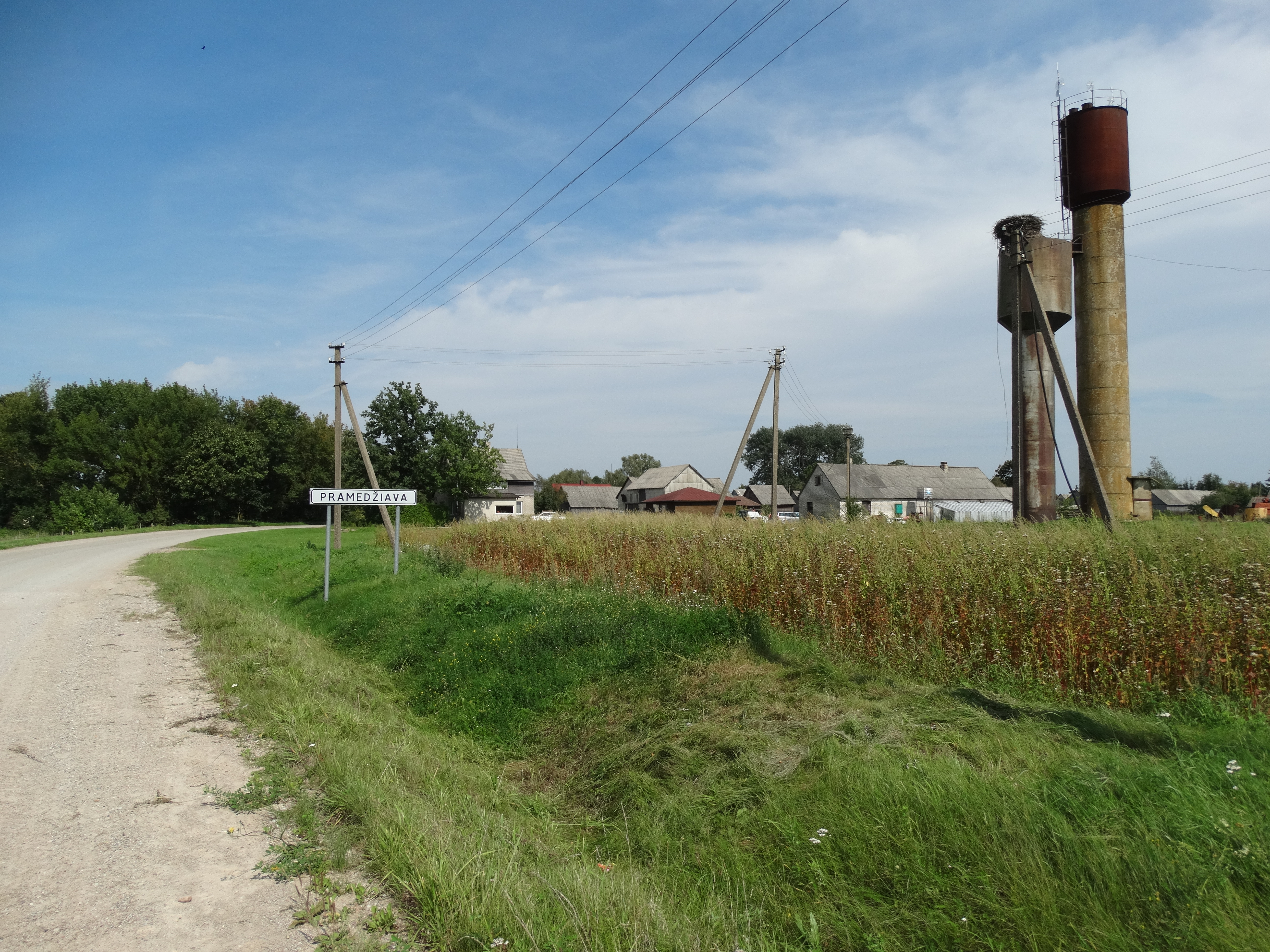 Pramedžiava, Raseiniai district, Lithuania